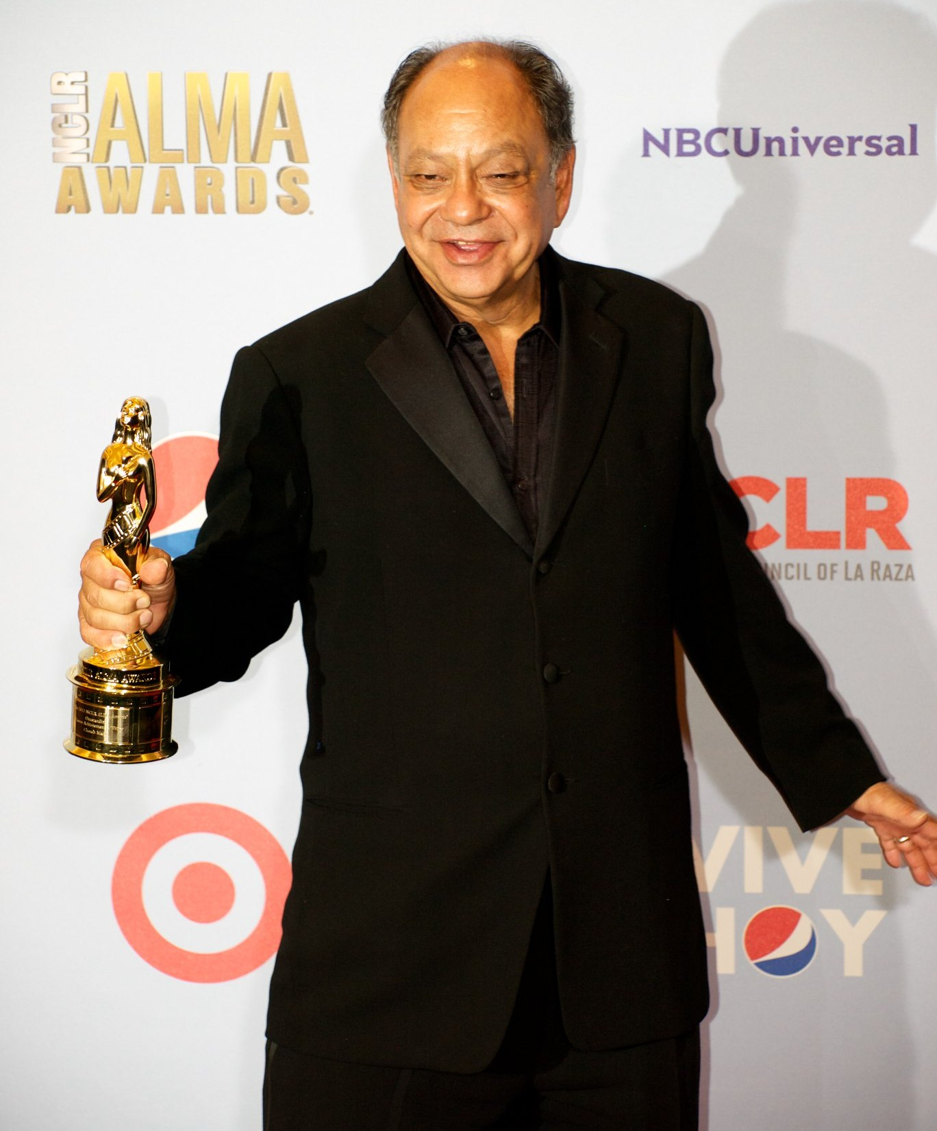 Cheech Marin at the Alma Awards 2012.